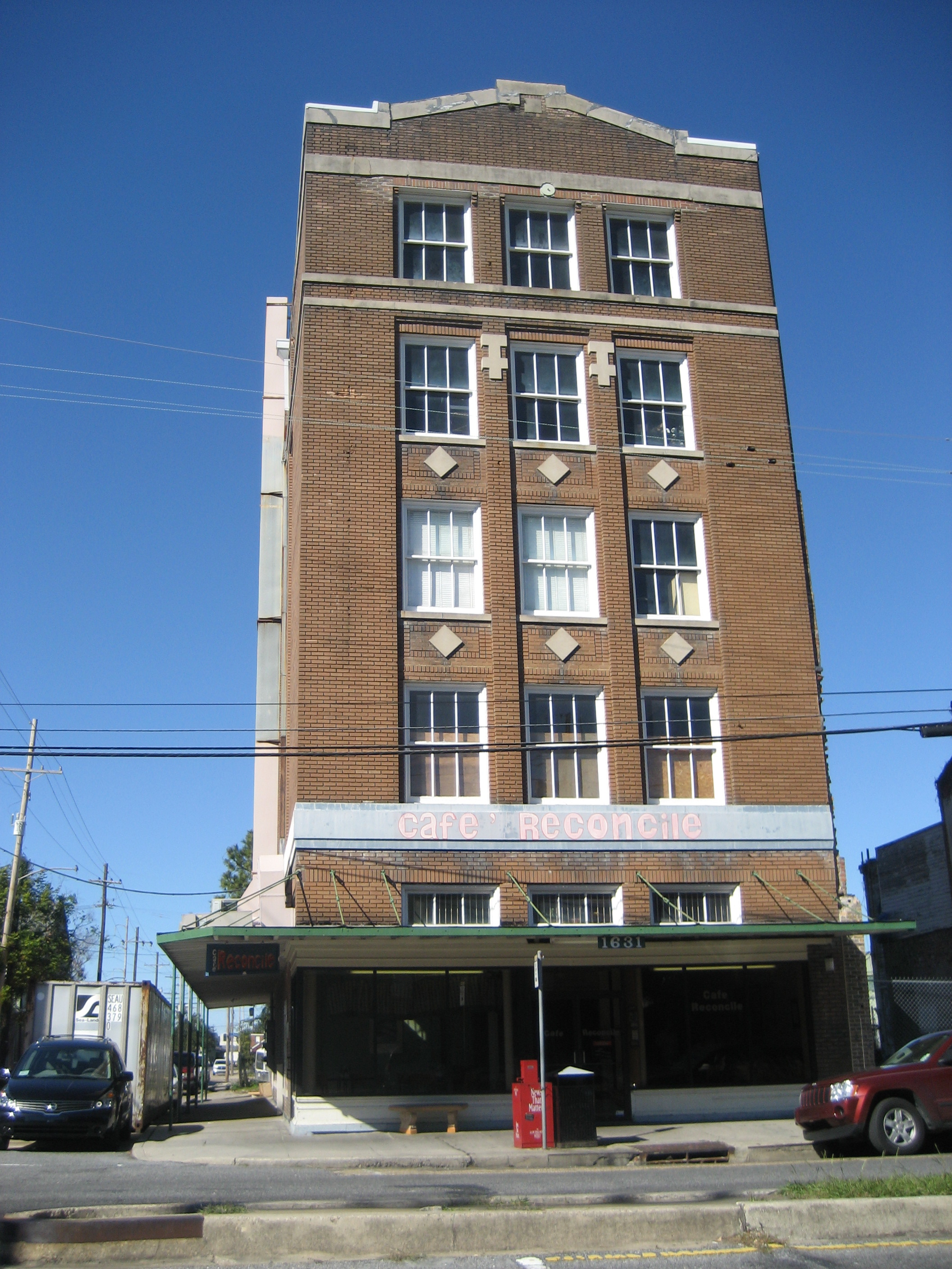 New Orleans: Building housing "Cafe Reconcile" restaurant/training facility, one of the few bright spots along the Dryades Street/Orethra Castle Haley Boulevard corridor, decades ago an important commerical strip in now problem ridden Central City neighborhood.